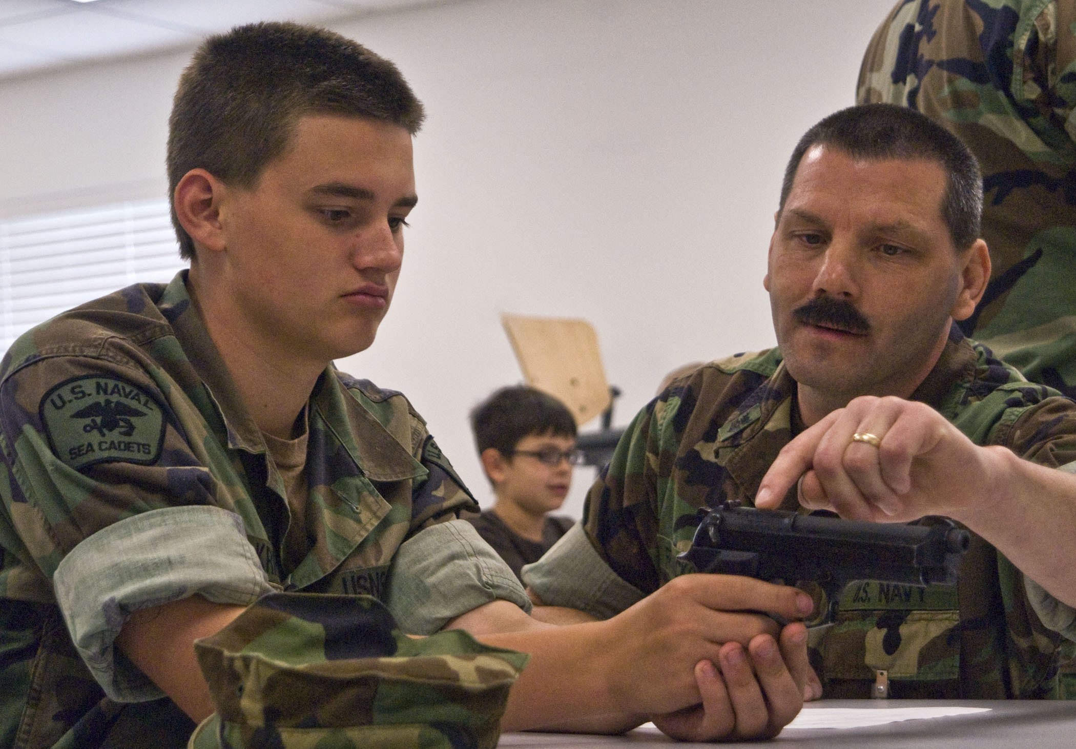 BANGOR, Wash. (July 9, 2011) Master-at-Arms 1st Class Ken Franckowiak, weapons leading petty officer at Submarine Group (SUBGRU) 9 Force Protection Det. 1, shows the firing sequence of the M9 Beretta pistol to Seaman Daniel Krieg, a Cadet with the Navy Sea Cadet Corps, Kitsap Unit, during a weapons-familiarization class held by reserve component sailors at Naval Base Kitsap. The class was the first event in a new relationship between SUBGRU-9 sailors and the Sea Cadets. (U.S. Navy photo by Mass Communication Specialist 1st Class Stephen Hickok/Released)